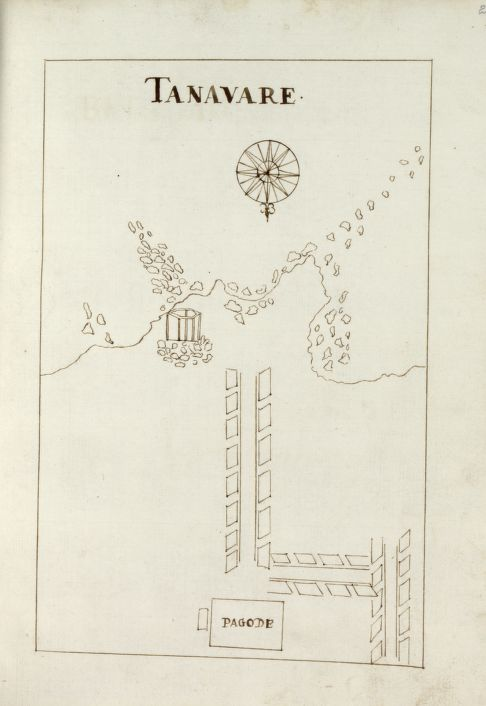 Location of one of the temple Kovils of Tenavarai Kovil, Tevanthurai before its destruction. Original drawing name: "Tanavare" from Plantas das fortalezas, pagodes & ca. da ilha de Ceilão